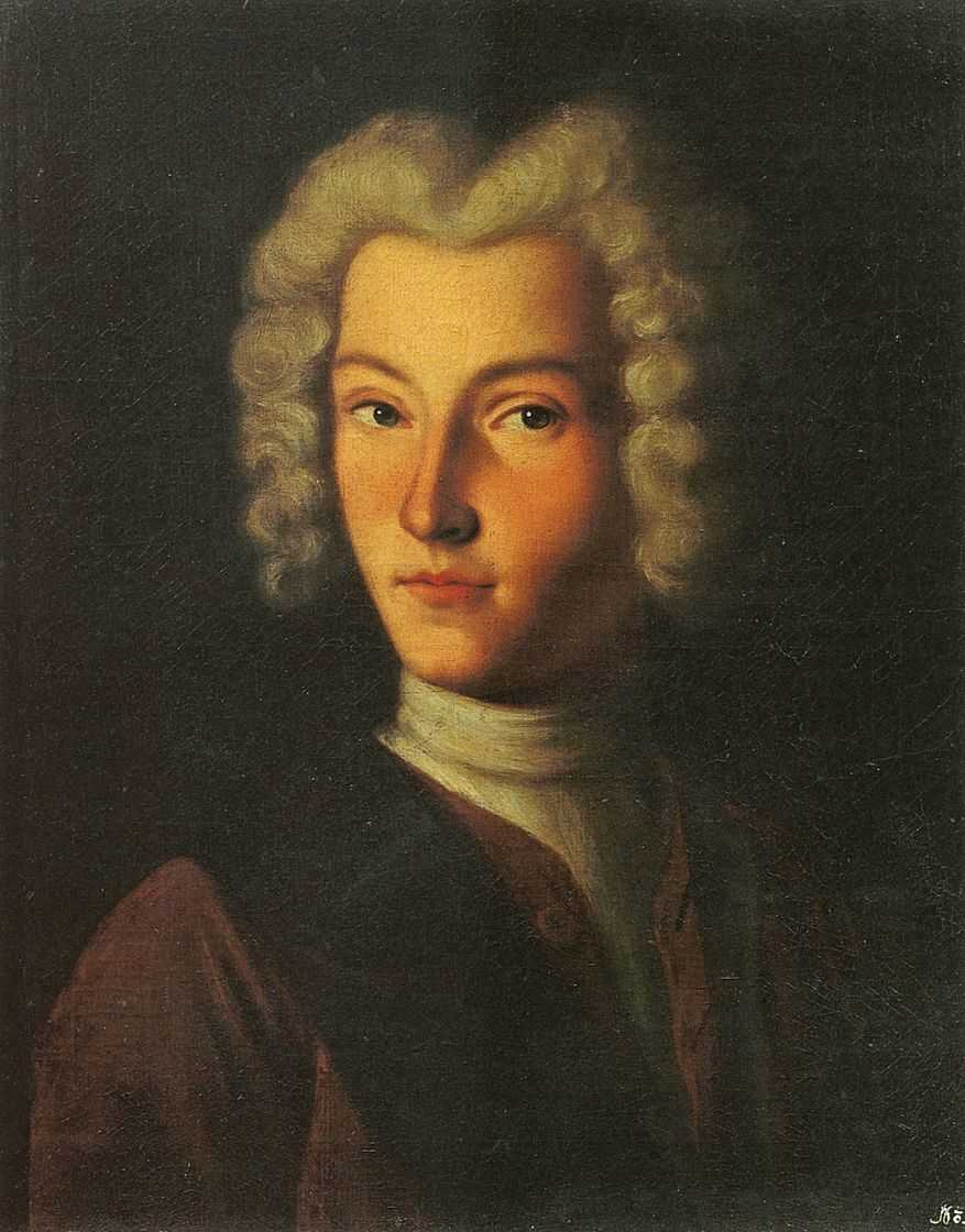 Portrait of Peter II, Imperor of Russia (1727-1730). State Tretyakov Gallery, Moscow